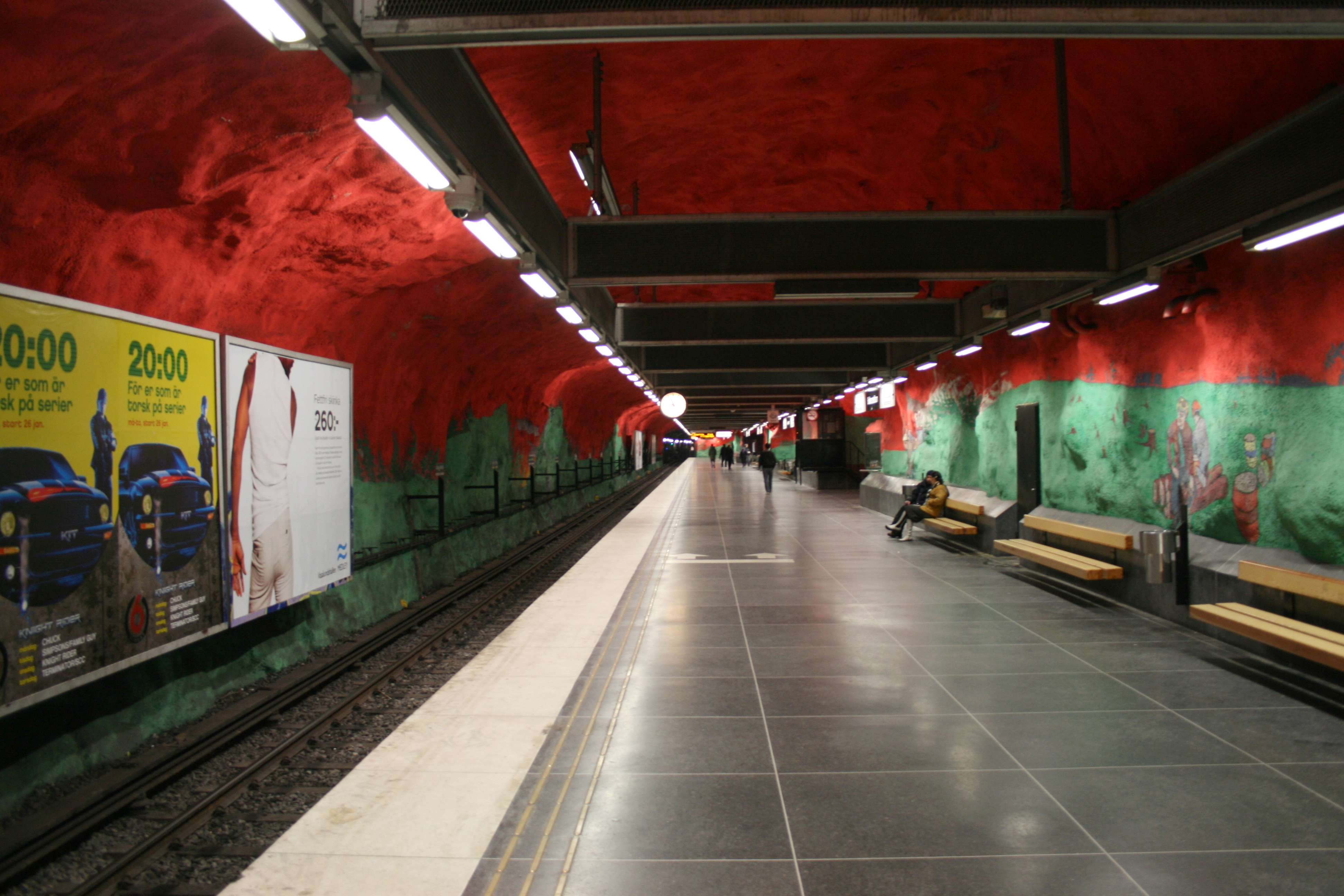 Solna centrum, Stockholm Metro station, Solna Municipality, Sweden